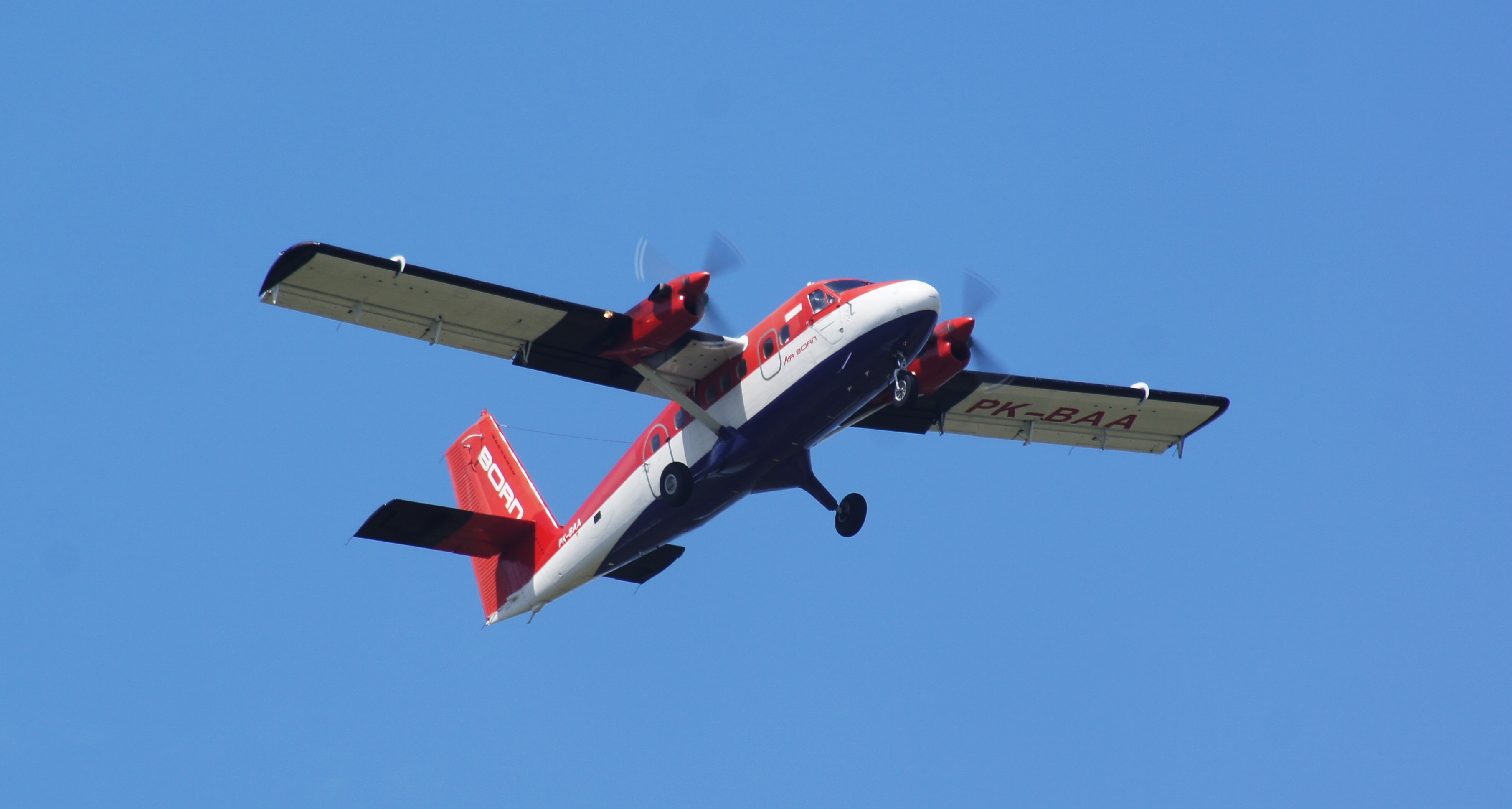 ??/03/1979 5N-AJR Bristow Helicopters ??/05/2000 C-FBKB Kenn Borek Air ??/09/2001 8Q-MAQ Maldivian Air Taxi 06/04/2011 C-FBKB Kenn Borek Air 16/05/2012 PK-BAA Air Born